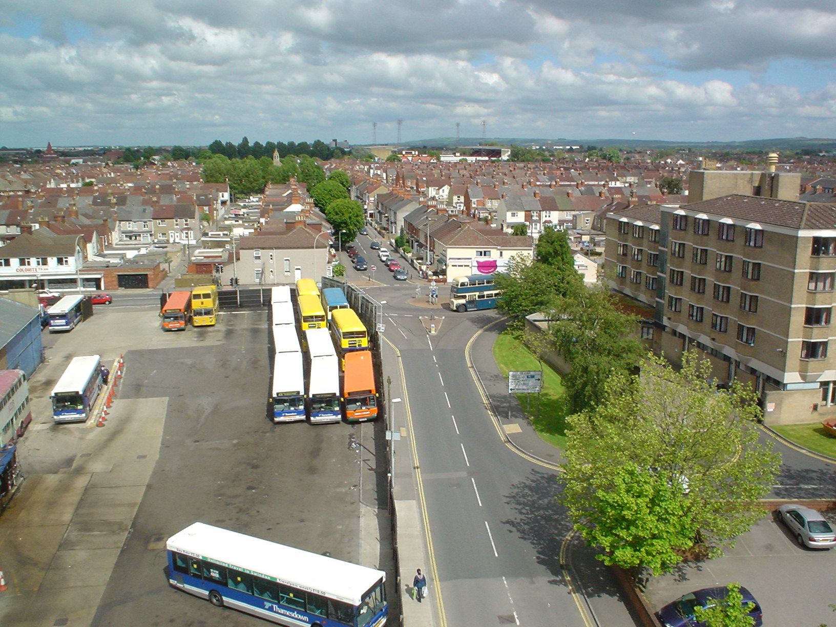 view east along Carfax Street, Swindon